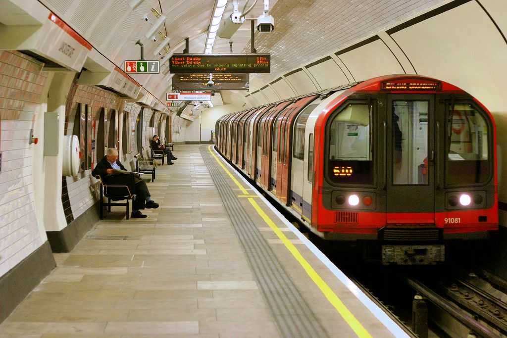 1992 stock Tube train at Lancaster Gate station, London Camera: Canon EOS Digital Rebel License on Flickr (2011-02-13): CC-BY-SA-2.0 Flickr tags: Lancaster Gate, Lancaster Gate Station, London Underground, The Tube, Underground, Tube, 1992 Stock, platform